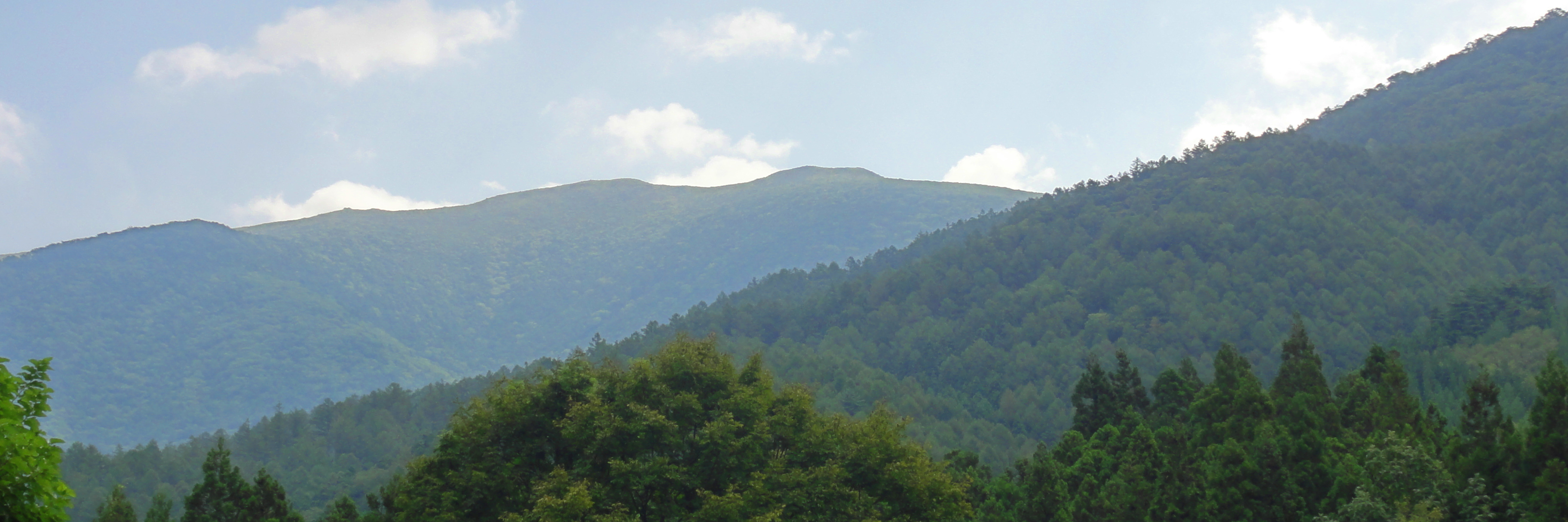 Mount Goyo (Goyo-zan) in Iwate Prefecture, Japan